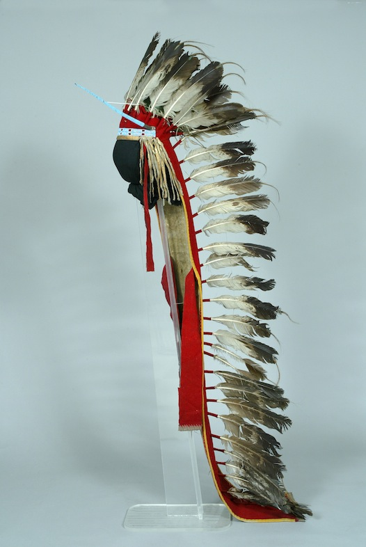 The object in this image is within the permanent collection of The Children’s Museum of Indianapolis